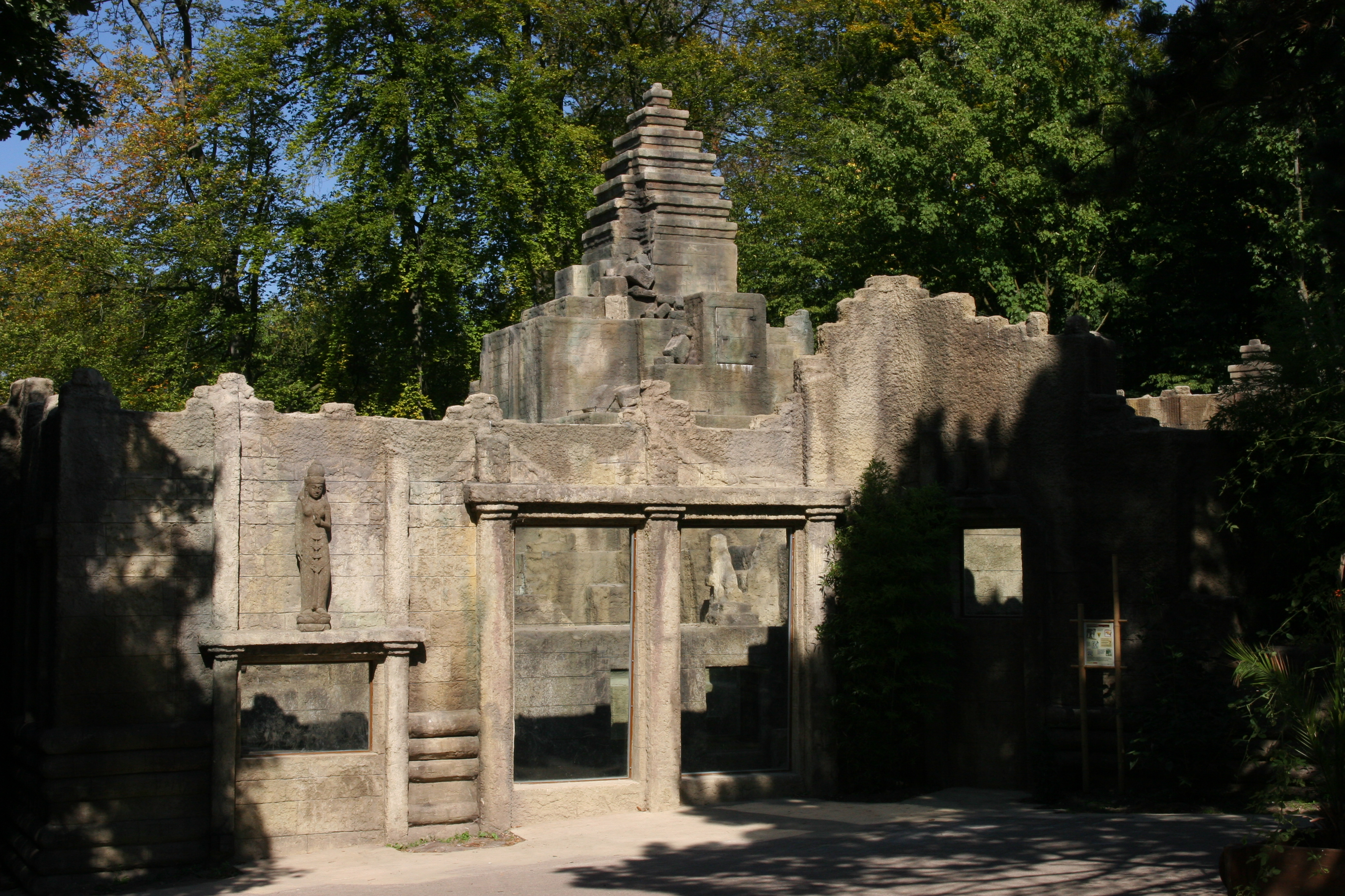 Zoo Osnabrück: Affentempel im Stile von Angkor Wat